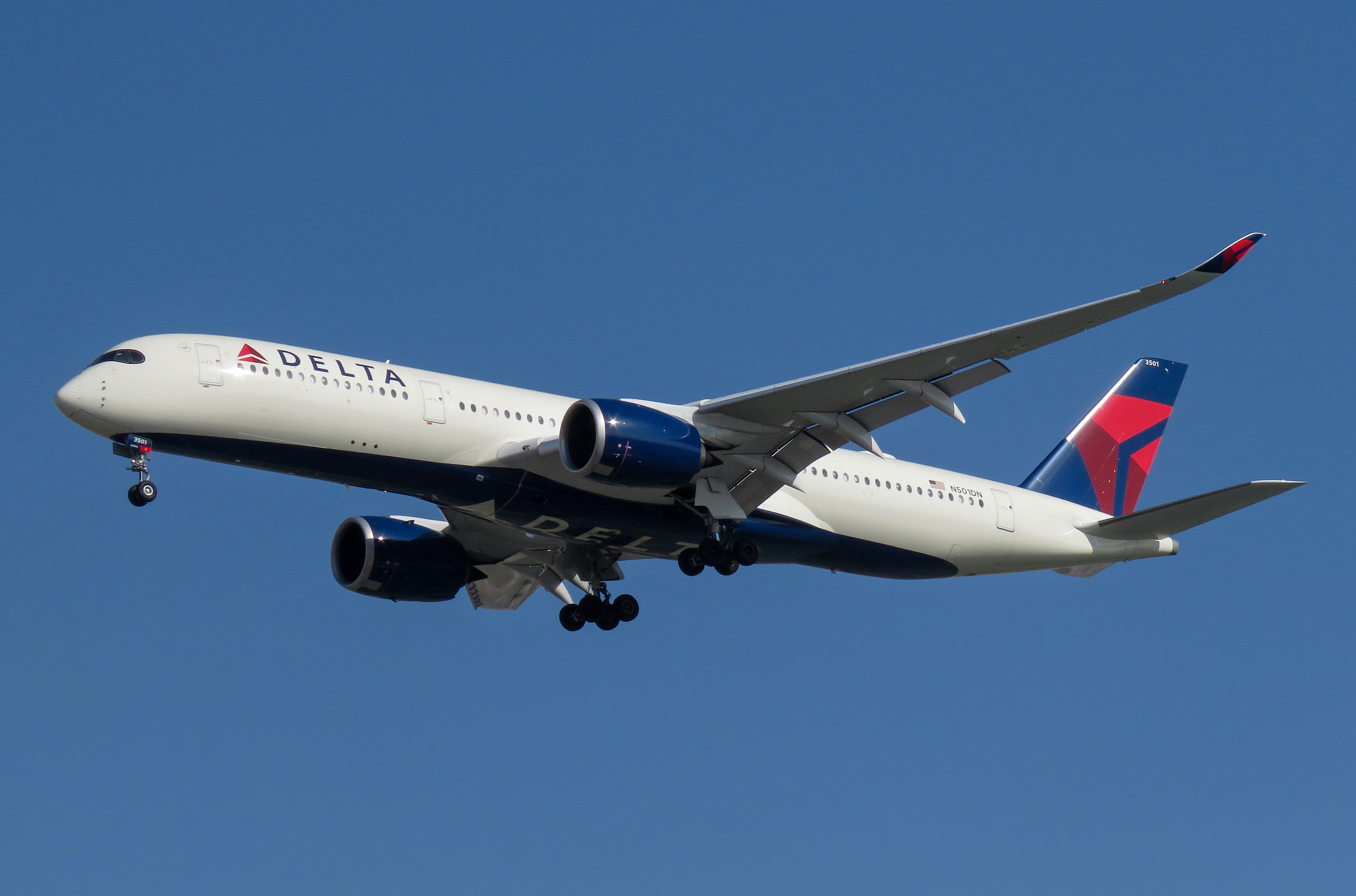 Delta 189 from Detroit. Finally a perfect lighting!